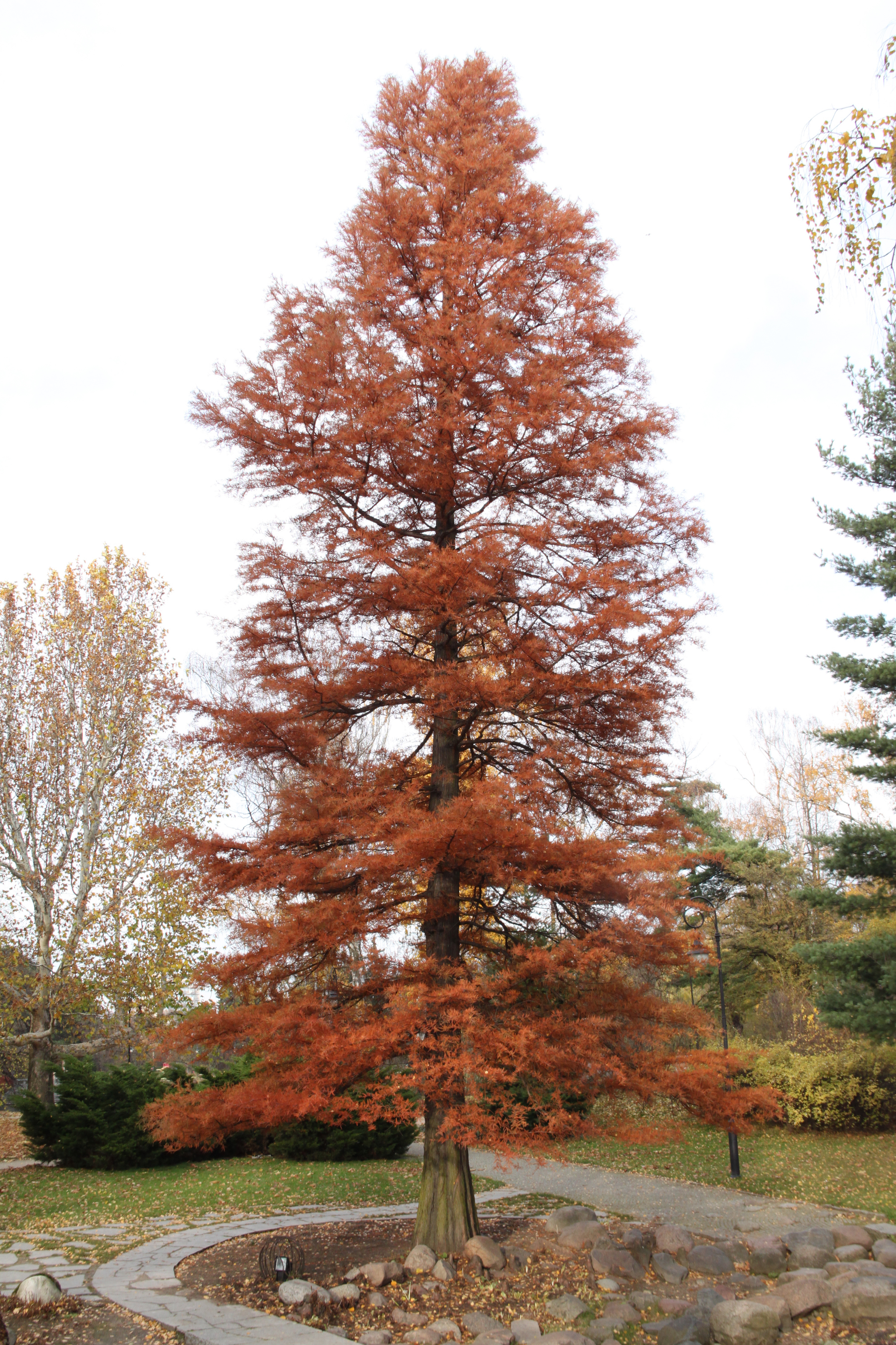 Baldcypress (Taxodium distichum) in Park Ujazdowski in Warsaw, Poland